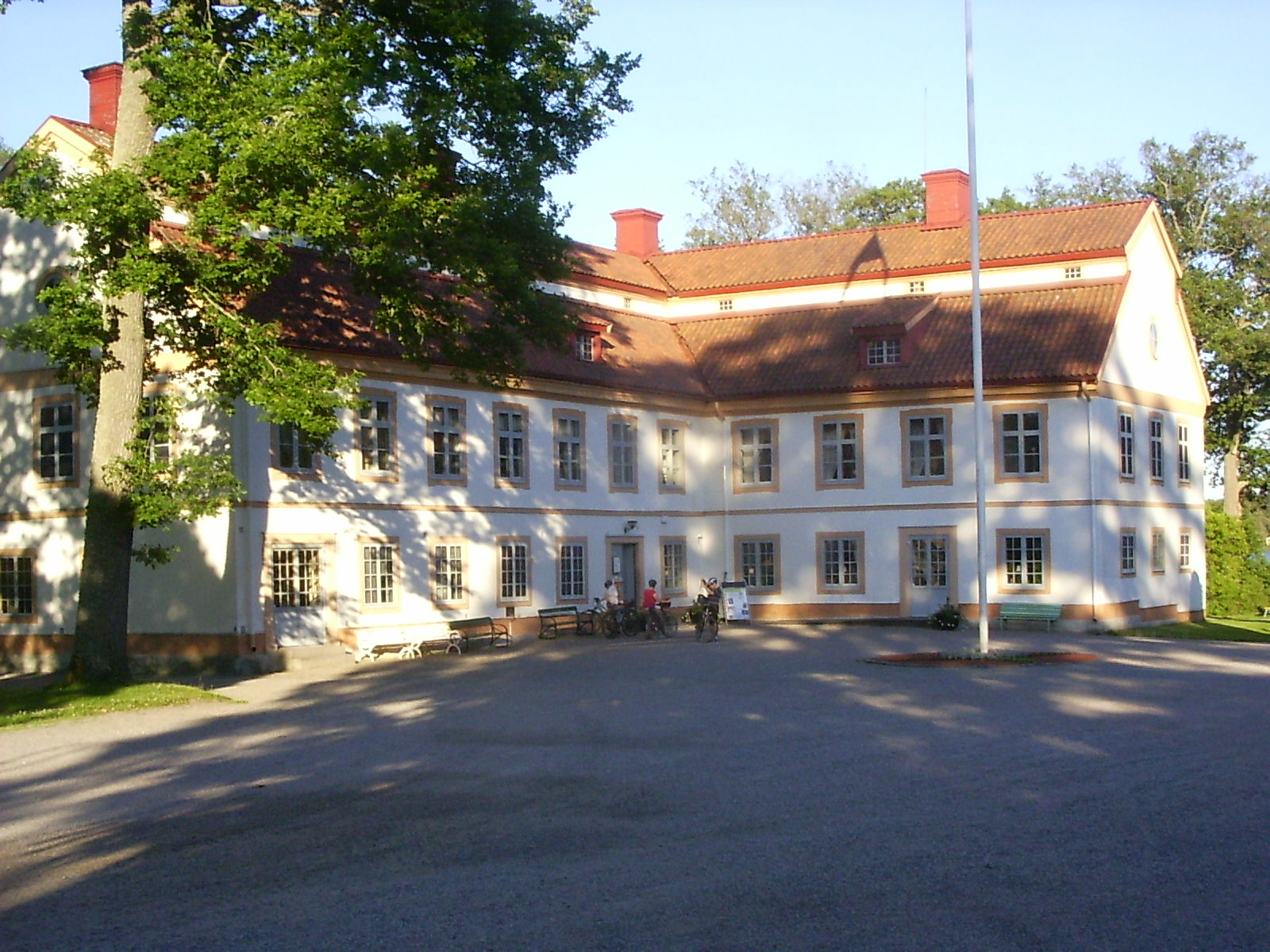 Katrineholm, Stora Djulö castle